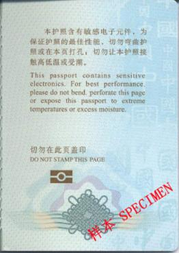 Usage Tips Page of the Chinese Service E-Passport Passport